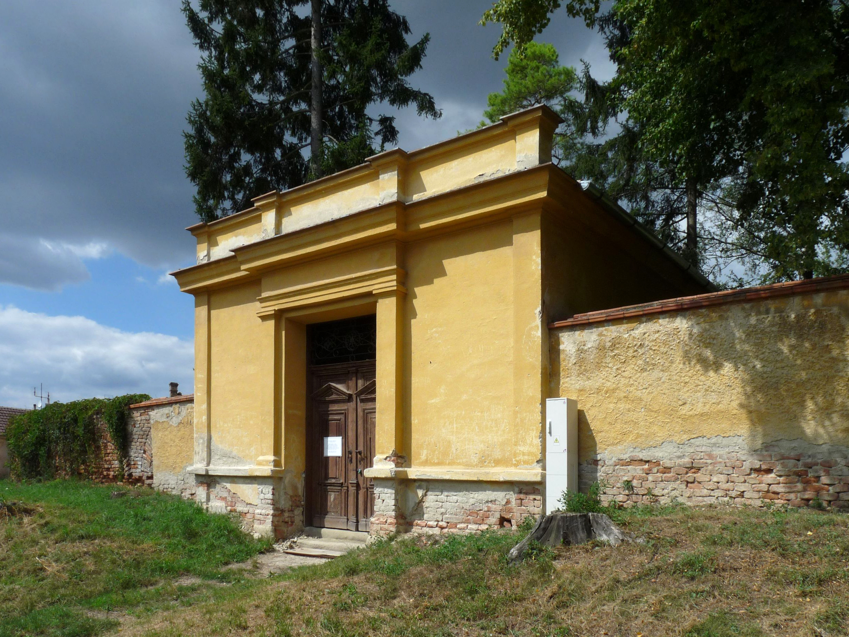 Jewish cemetery in the town of Bučovice, Vyškov District, South Moravian Region, Czech Republic.